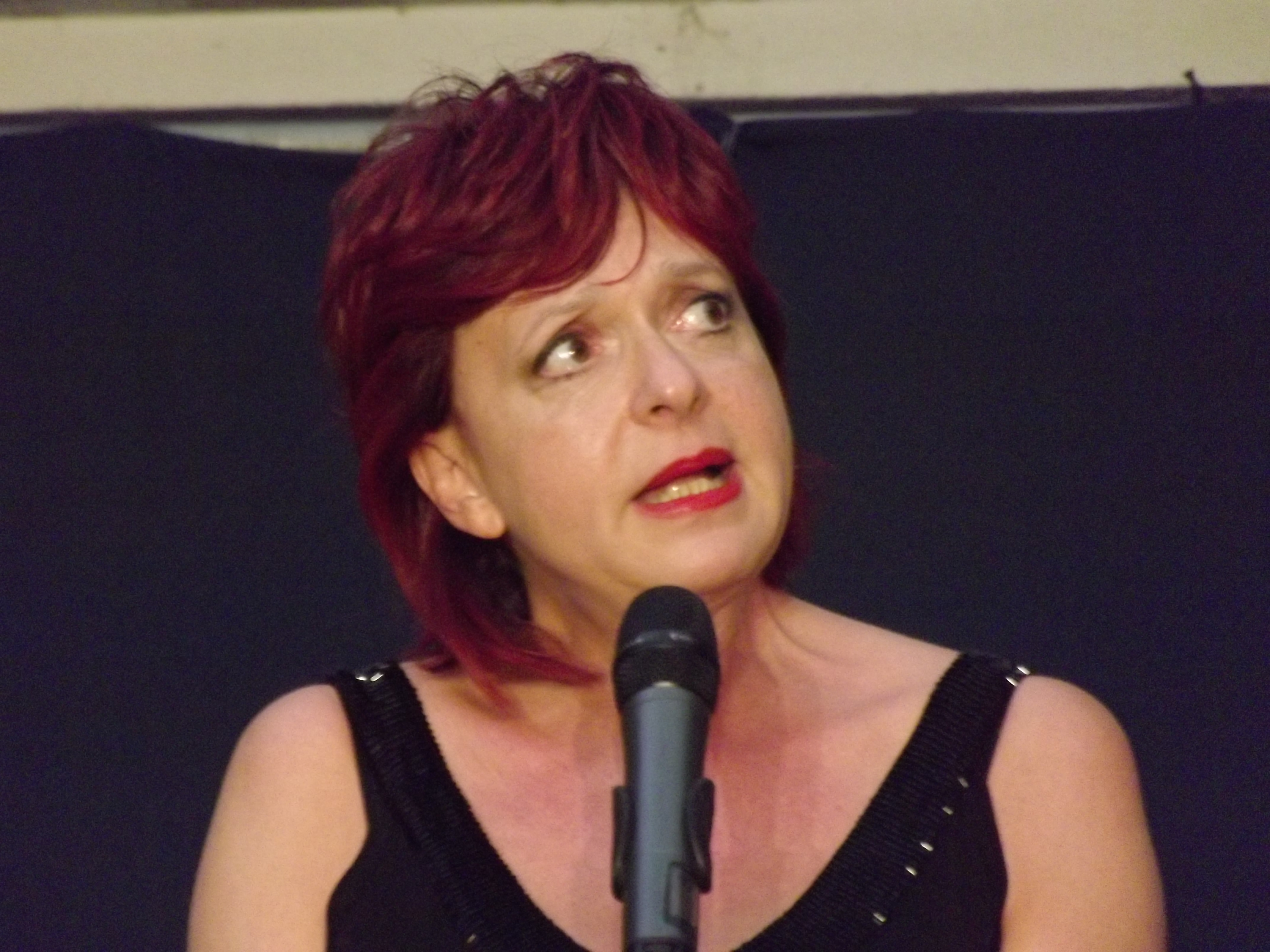 Judit Hernádi Hungarian actress at Hévíz in July, 2012